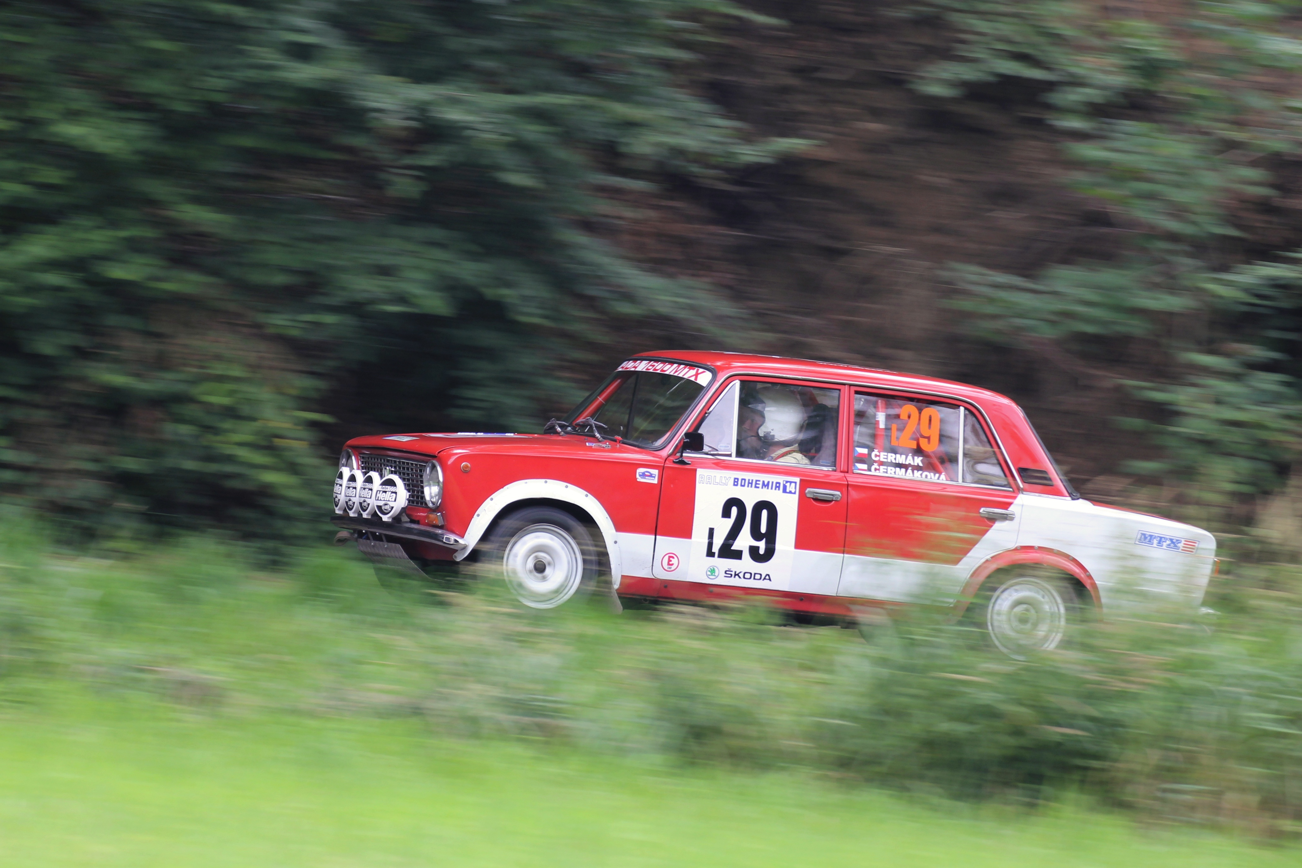 ČERMÁK / ČERMÁKOVÁ, Lada 1600 MTX (2, 1981), 2014 Rally Bohemia Legend